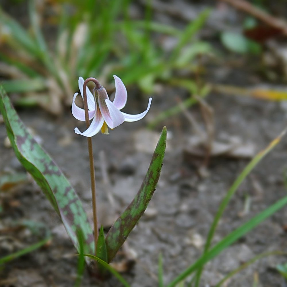 Erythronium albidum, Spring Creek Forest Preserve, North Garland, Texas.